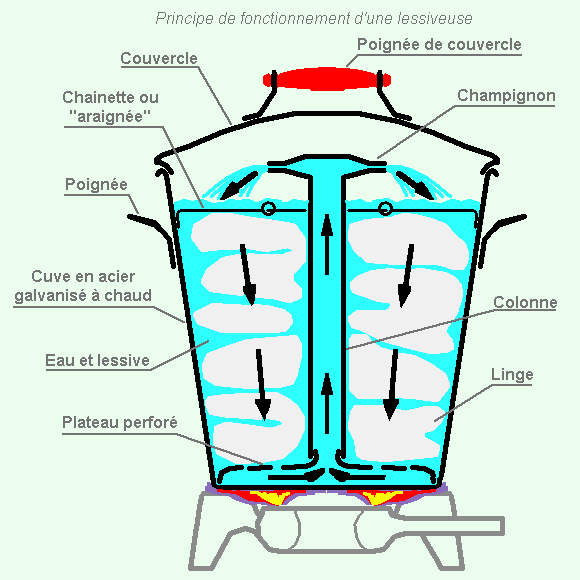 operating principle of coppers